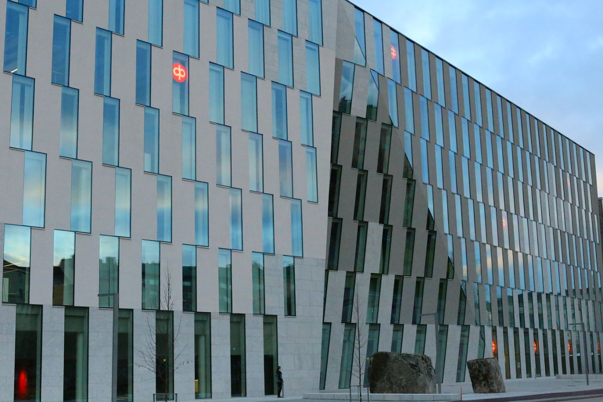 OP Financial Group new building in Vallila District in Helsinki. Original 5472x3648 pix.